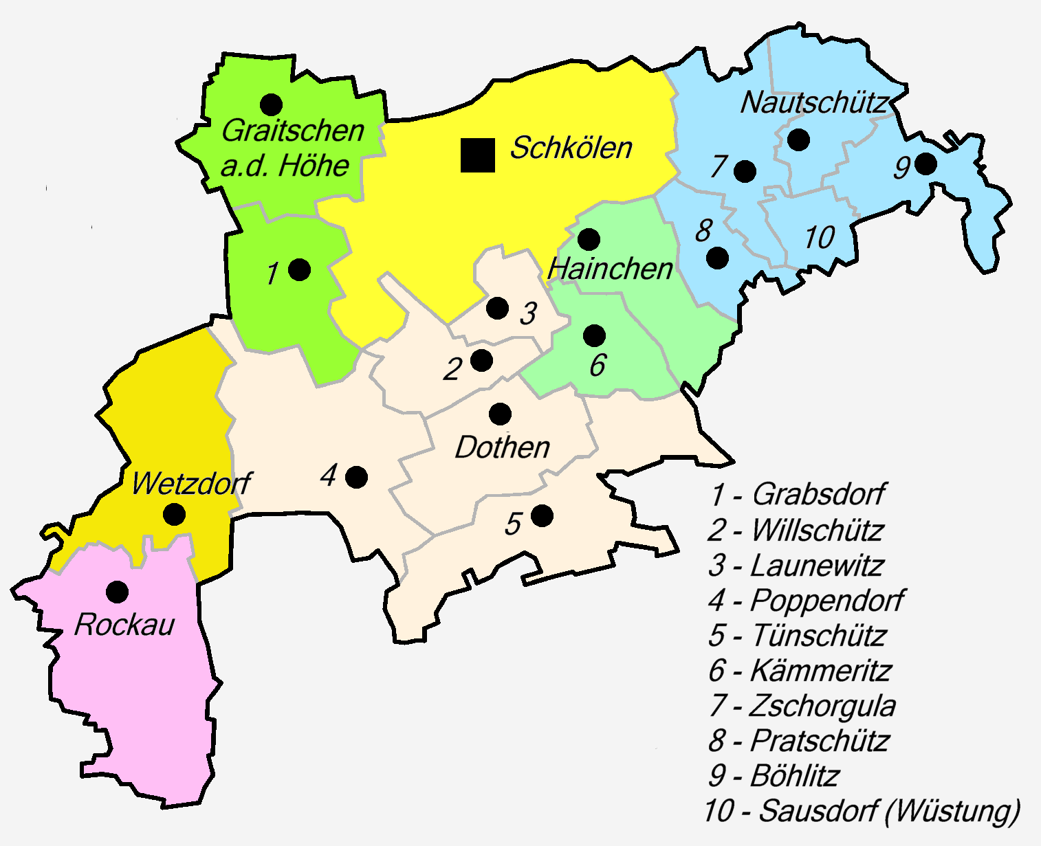 District-Map of Schkölen city.